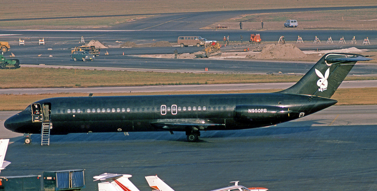 Douglas DC-9-32 N950PB of the Playboy Club at Chicago O'Hare Airport in 1975